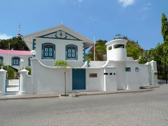 View of Medhu Ziyaarai from across the road with the gates of Muliaage visible on the right.